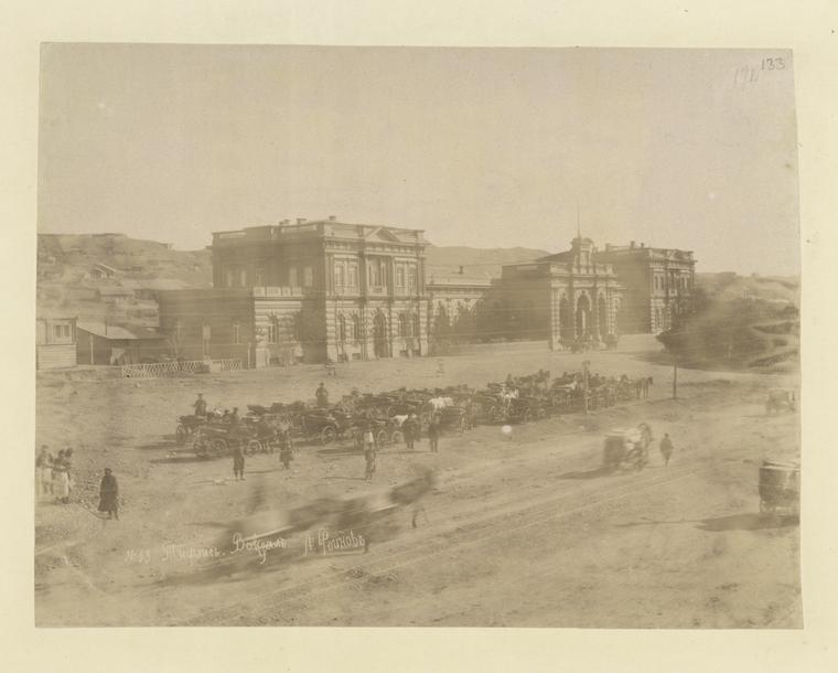 Tbilisi: Railroad station Image Title: Tiflis. Vokzal. A.Roinov. Alternate Title: Tbilisi: Railroad station